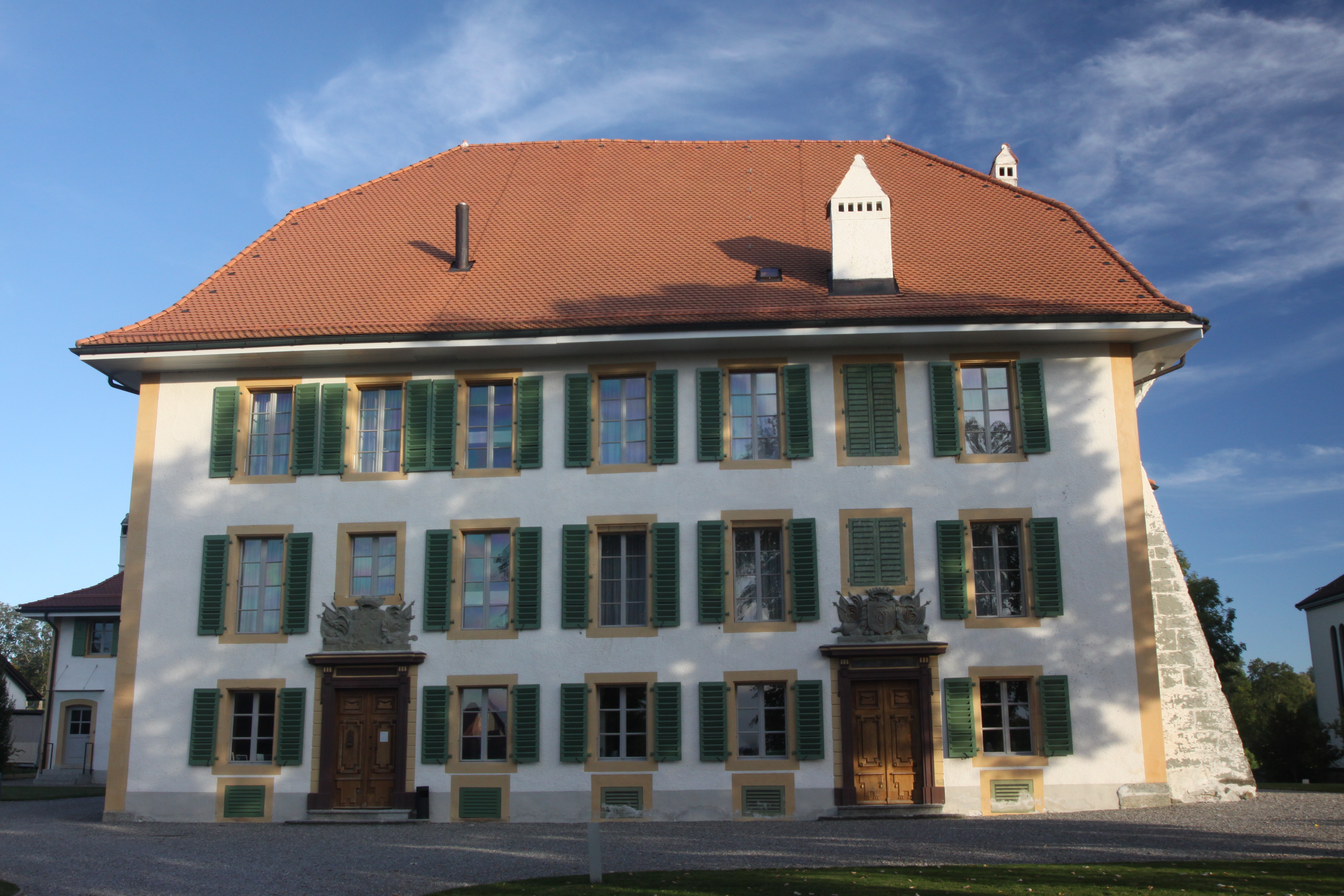 Mézières Castle, Route de l’Église 12, Mézières